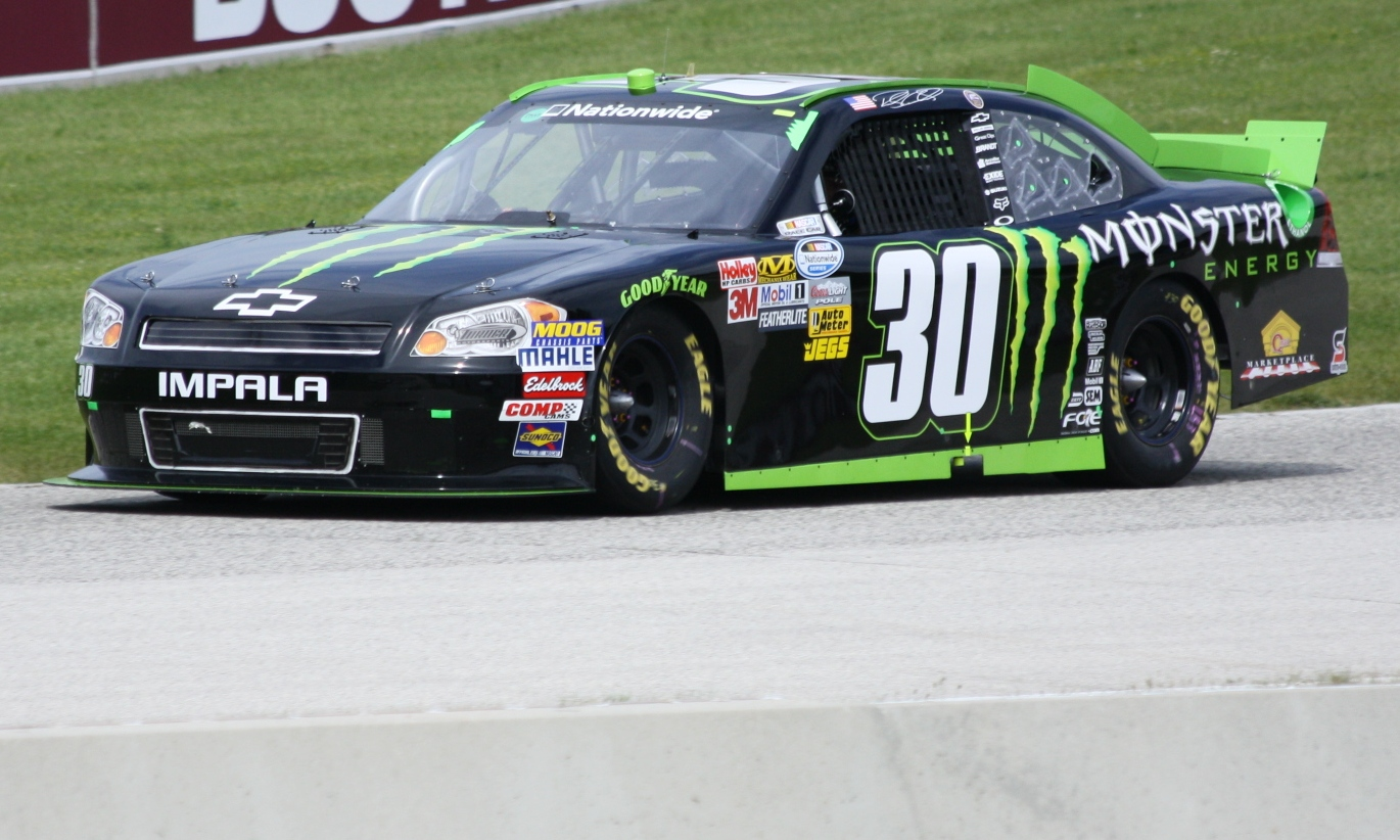 NASCAR driver Ricky Carmichael racing his stock car at Road America at the 2011 Bucyros 200 Nationwide Series race.